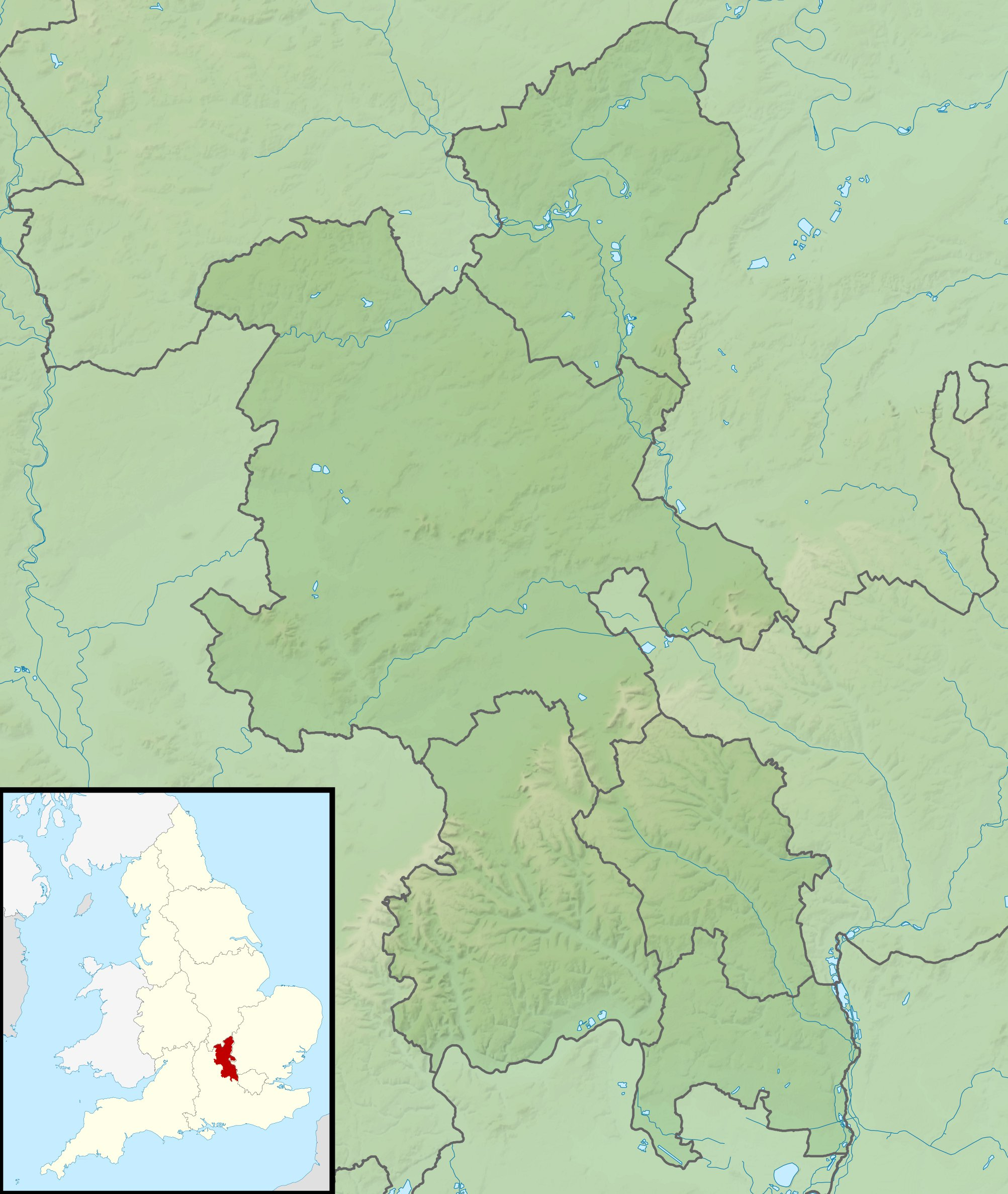 Relief map of Buckinghamshire, UK. Equirectangular map projection on WGS 84 datum, with N/S stretched 160% Geographic limits: West: 1.33W East: 0.33W North: 52.21N South: 51.47N